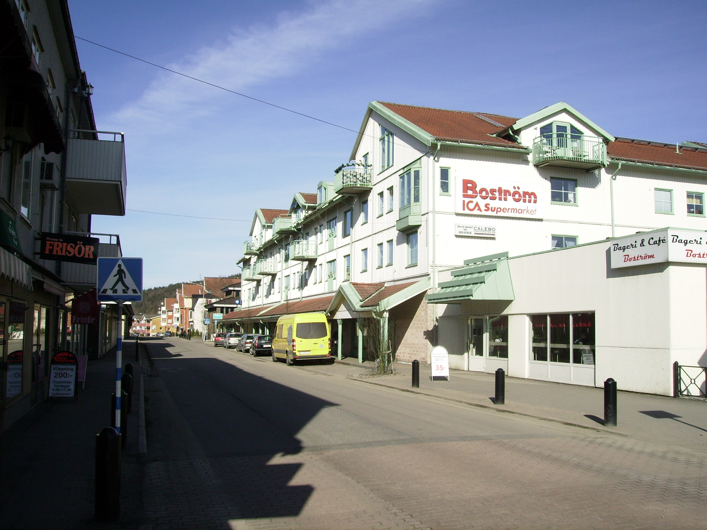 Göteborgsvägen in Lilla Edet, march 2009.